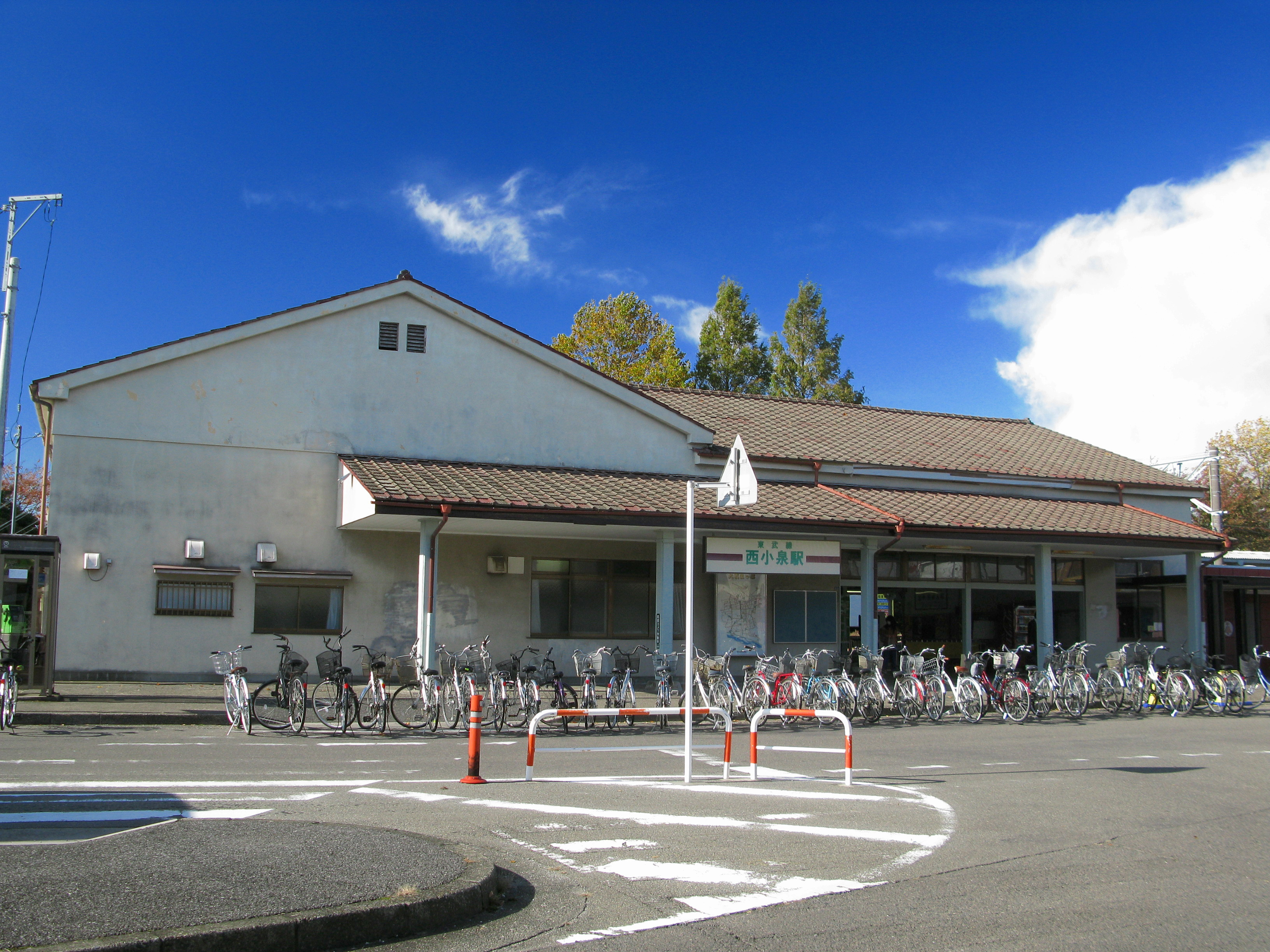 Nishi-Koizumi Station of the Tōbu Koizumi Line, Oizumi, Gunma, Japan